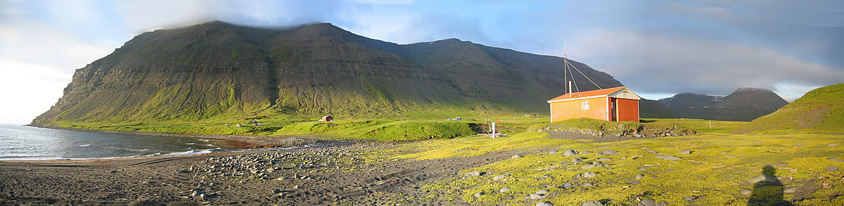 Skálavík Bolungarvik, Iceland photo by Salvor Gissurardottir July 2006 several photos stiched together